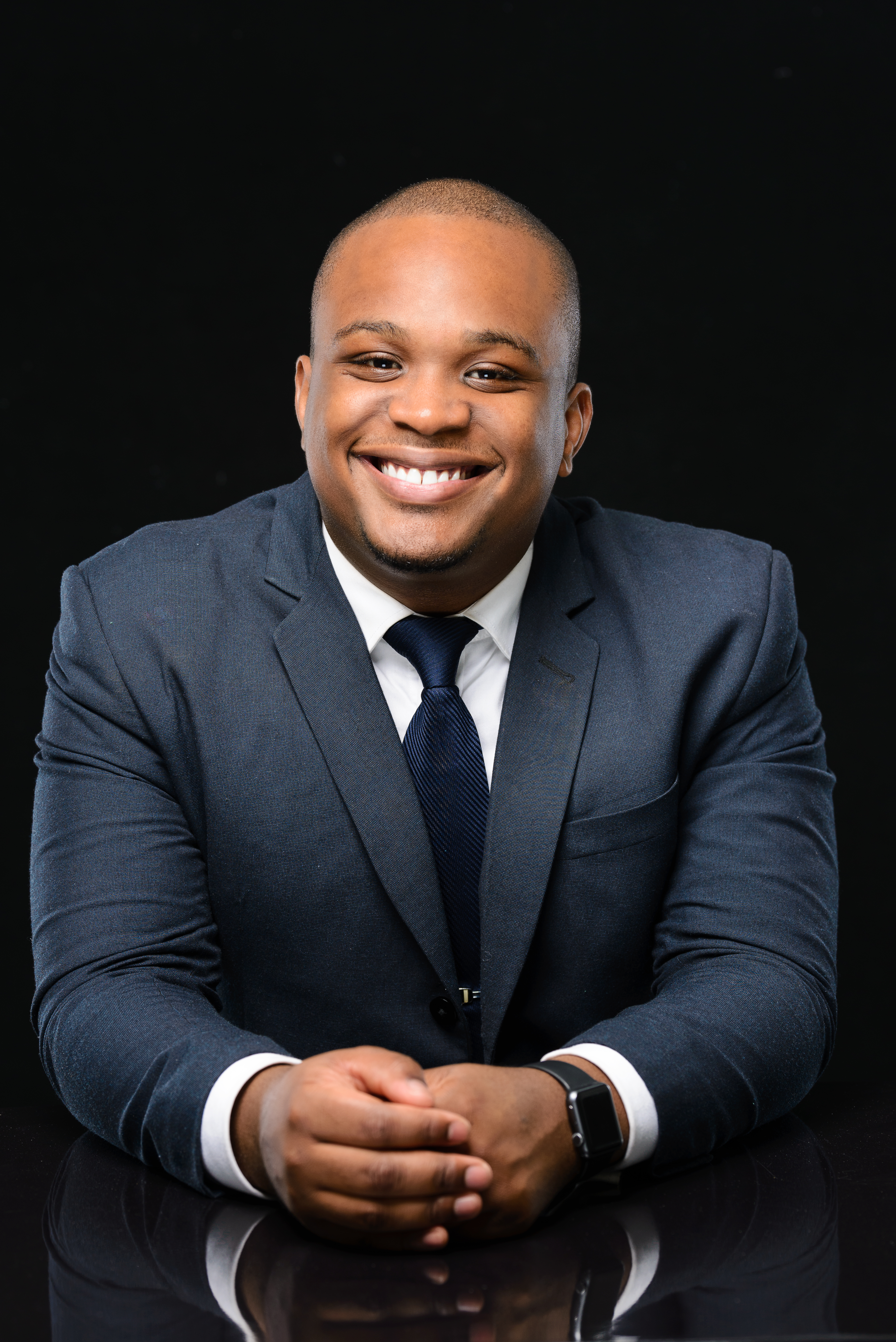 Photo of notable Caribbean Tech Entrepreneur, Gordon Swaby